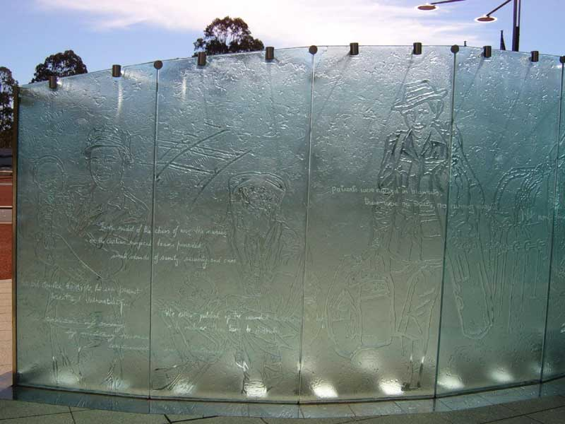 Category:Images of Canberra Australian Service Nurses National Memorial, in ANZAC Parade, the principal ceremonial and memorial avenue of Canberra, the national capital city of Australia. Detail of several panels of the lapsed-glass panels with their images and etched words. I took this picture on 28 April 2005. Peter Ellis 07:43, 1 May 2005 (UTC)